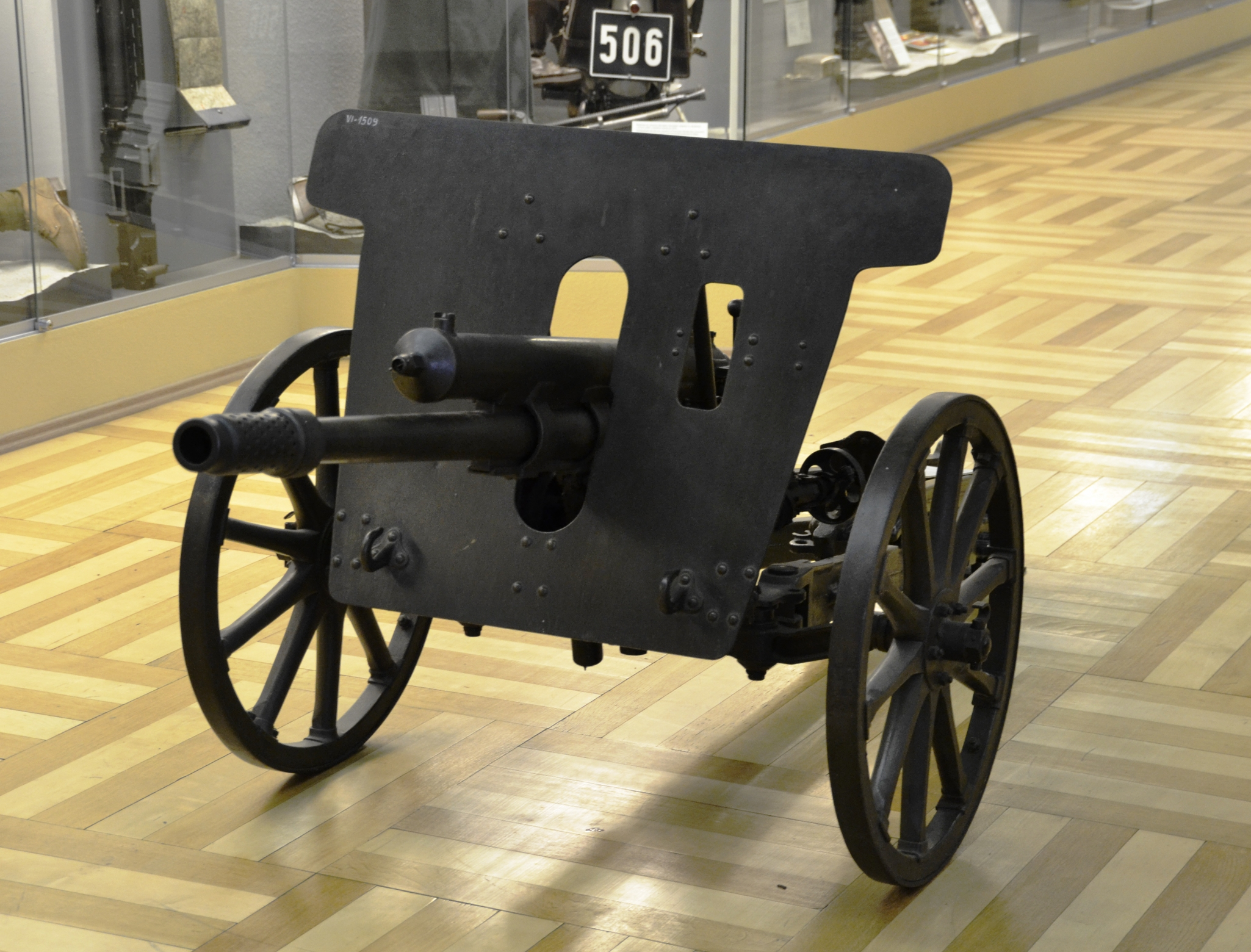 Model 34 "A3" 3,7 cm cannon in the Army Museum Žižkov (Prague).